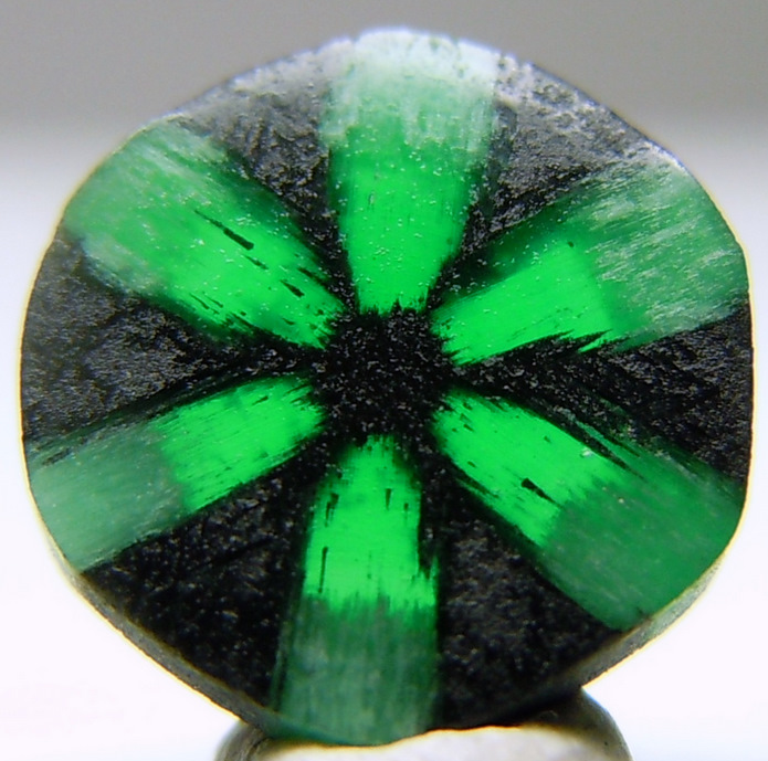 a trapiche emerald from Muzo Mine, Colombia